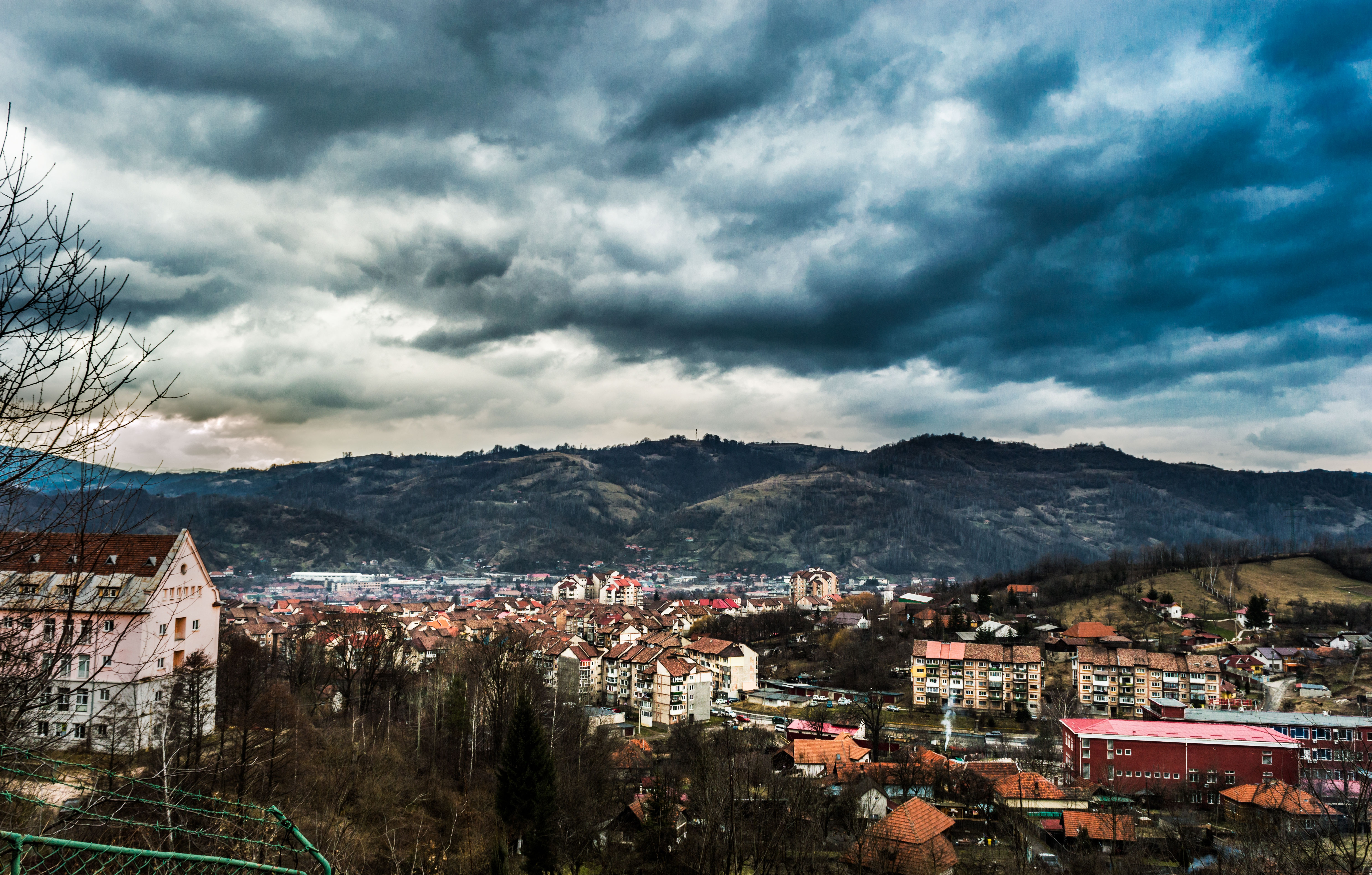 Petrosani, Hunedoara, Romania, a little town with more then 30.000 souls